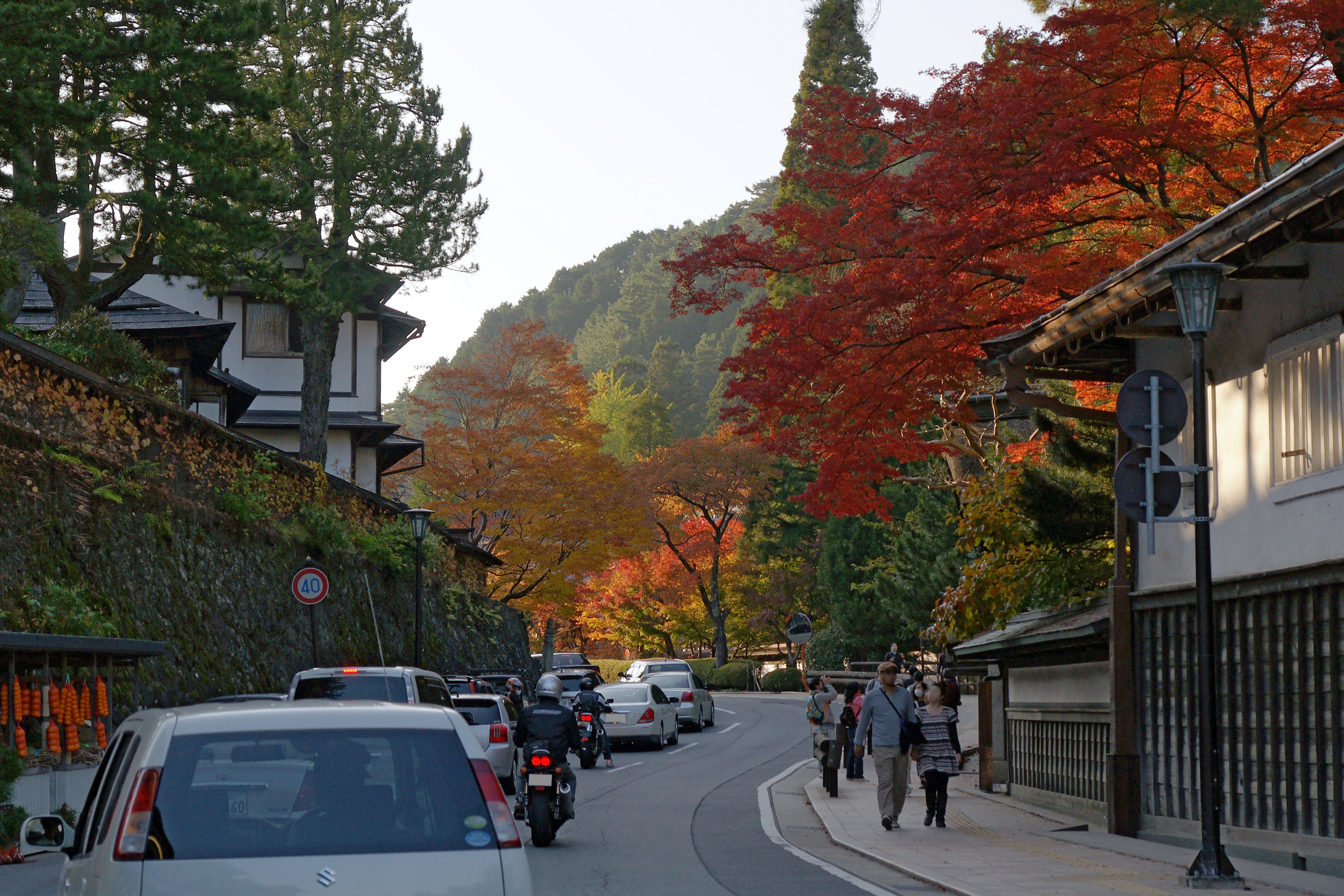 at Mount Kōya in Koya, Wakayama prefecture, Japan.